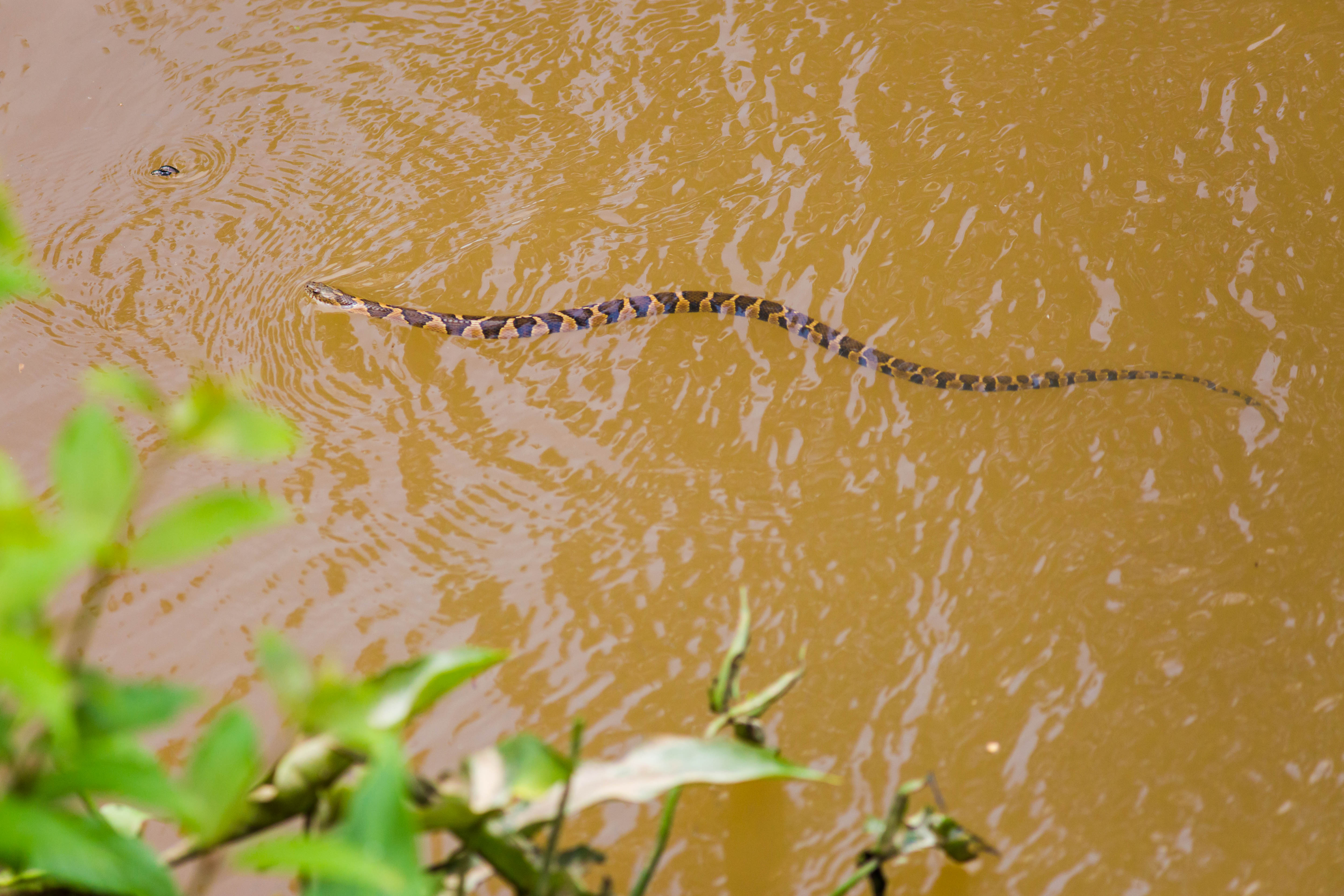 Northern water snake